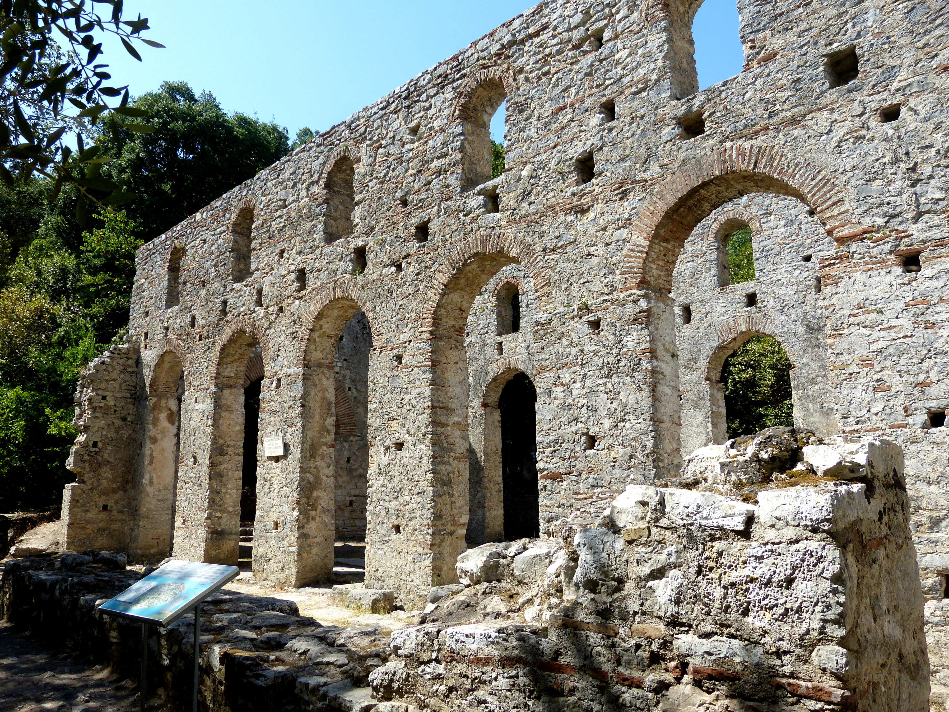 Butrint (Albania). Basilica ( 6th century AD ): Nave.